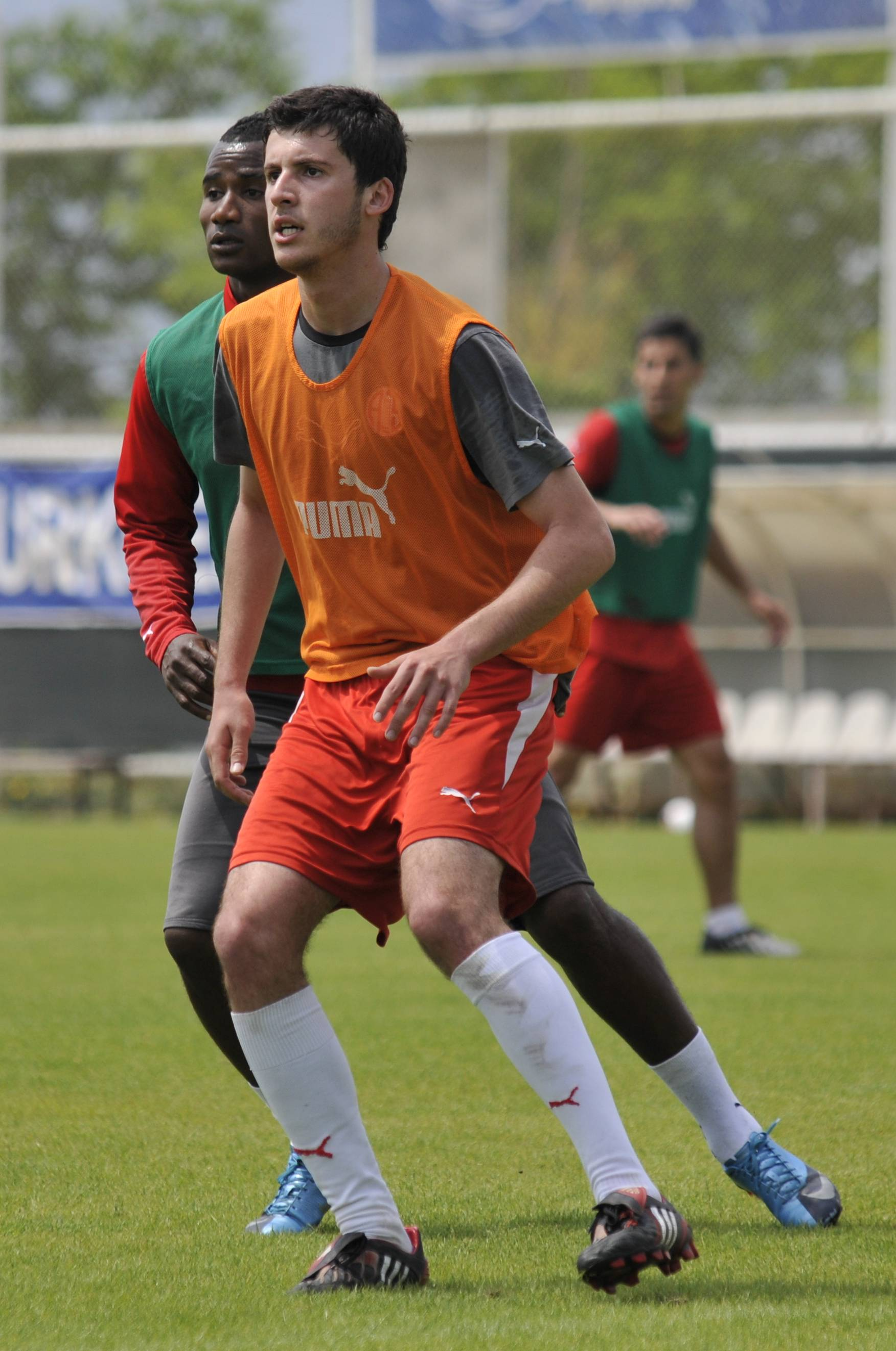 Photo : Murat Özgen